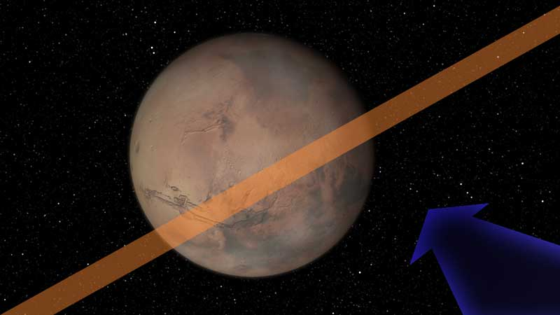 This artist rendering uses an arrow to show the predicted path of asteroid 2007 WD5 on Jan. 30, 2008, and the orange swath indicates the area it is expected to pass through. Mars may or may not be in its path.